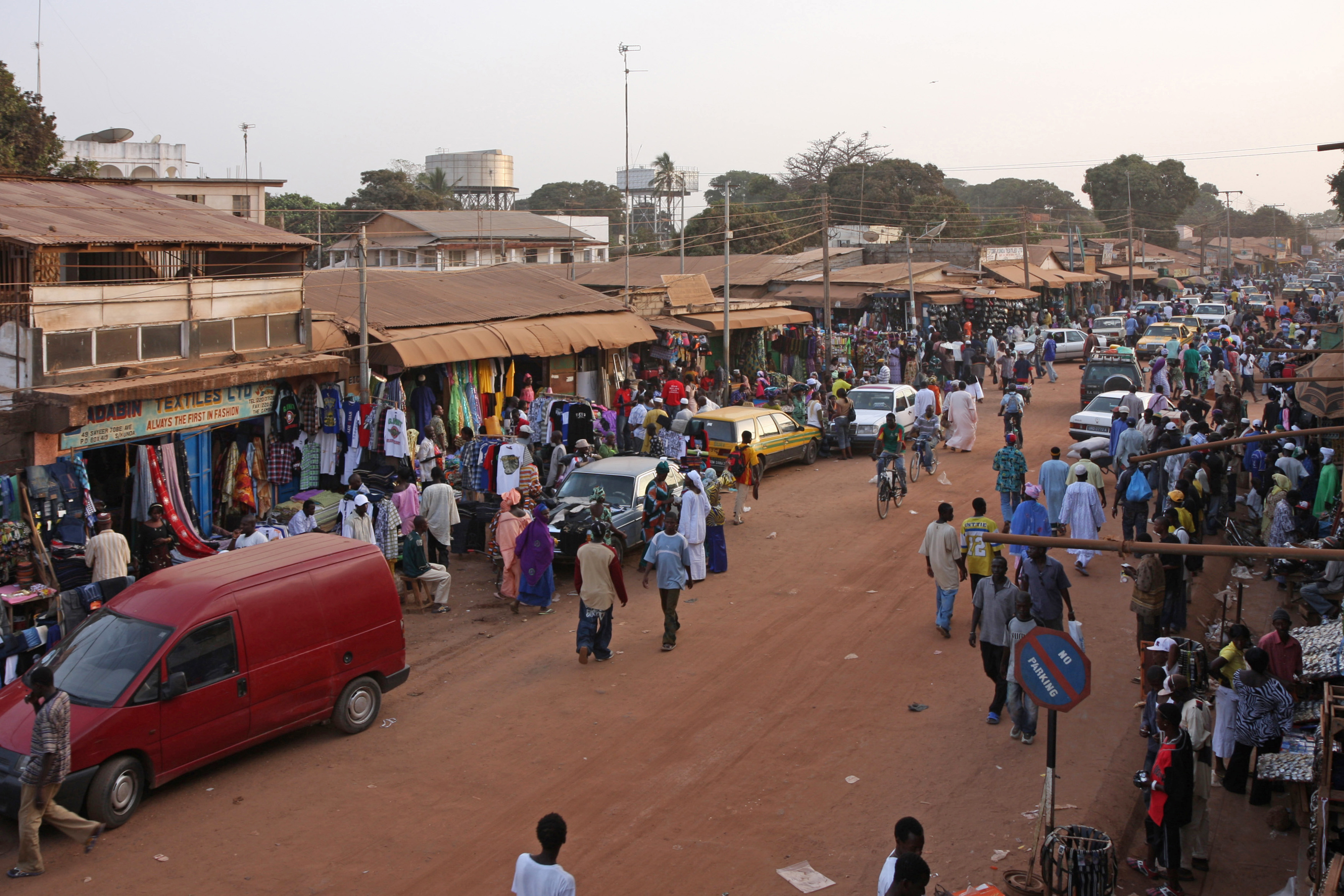 Serekunda Market, The Gambia